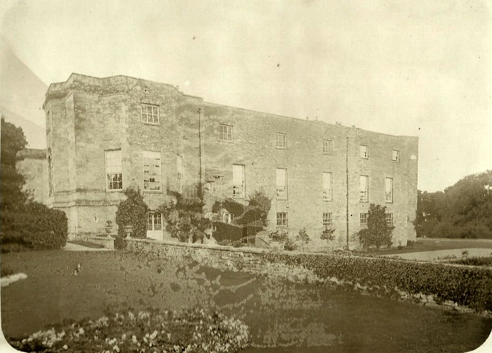 Gilling Castle (now preparatory school for Ampleforth College) at Gilling East, North Yorkshire, England.